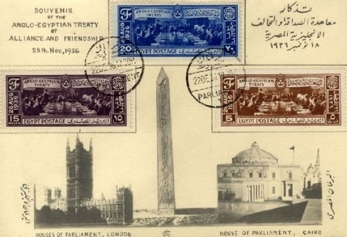 Anglo Egyptian treaty of alliance and friendship 1936 signing - 18-November 1936